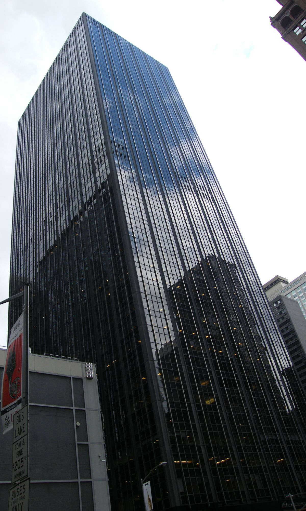 Burlington House